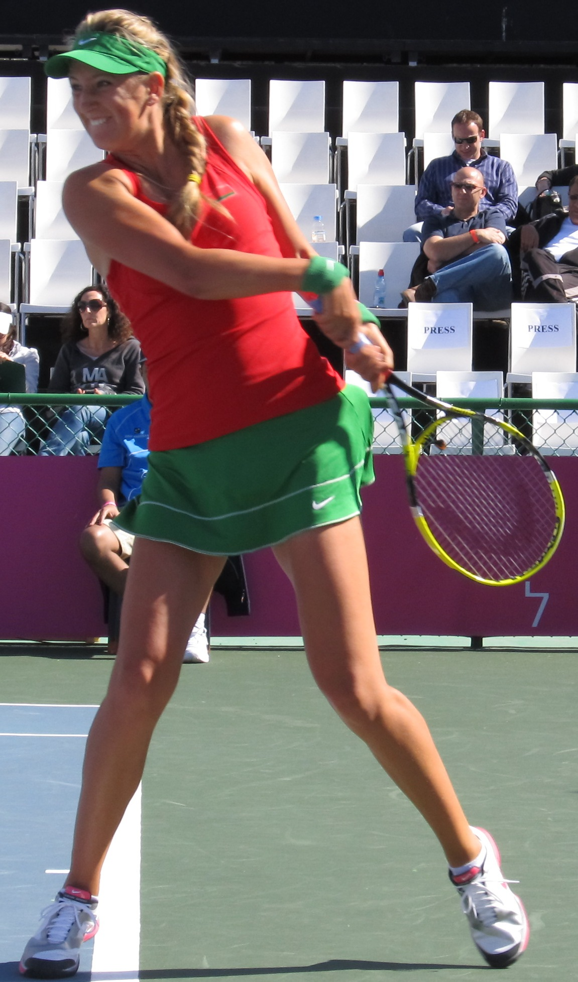 The tennis player Victoria Azarenka of Belarus during her match against Sybille Bammer of Austria in the 1st day of Fed Cup Group I 2011 Europe/ Africa in Eilat, Israel